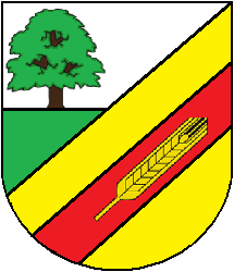 Shield of the municipality of Lüsslingen-Nennigkofen, Canton of Solothurn